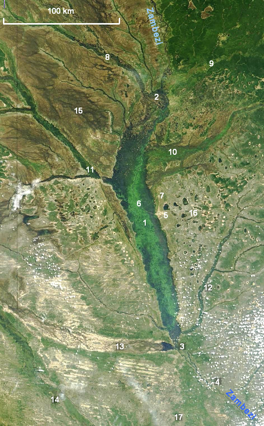 NASA satellite photograph showing the Barotse Floodplain as the bright green to dark blue central region.